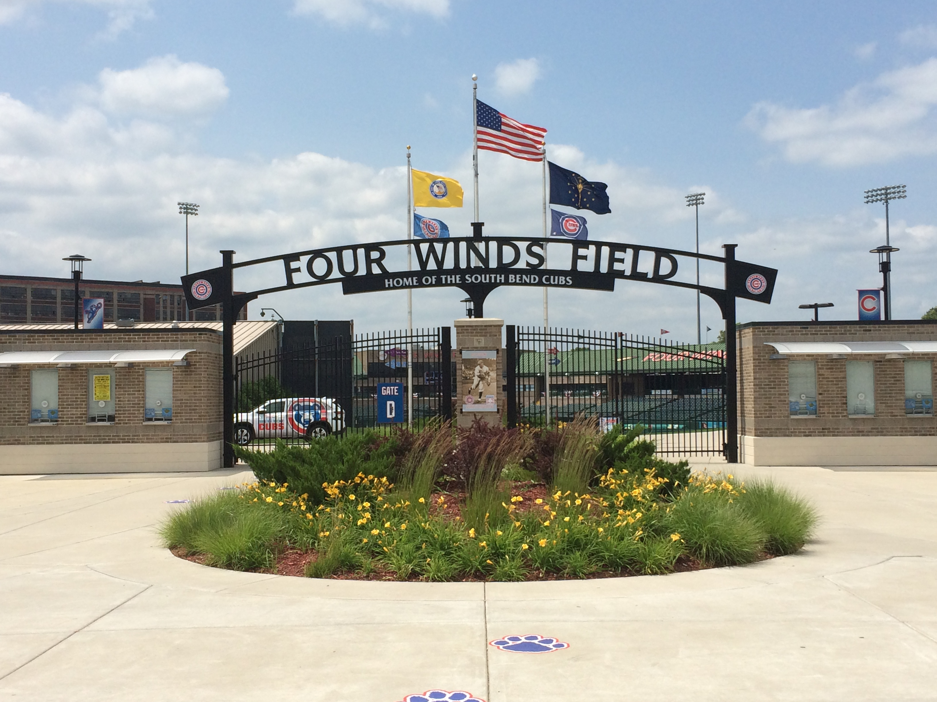 Entrance to Four Winds Field at Coveleski Stadium, home of the South Bend Cubs, in South Bend, Indiana. Photo taken on 2 July 2015.